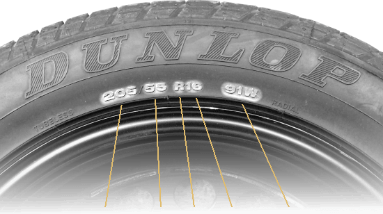 Tires mark Dunlop.